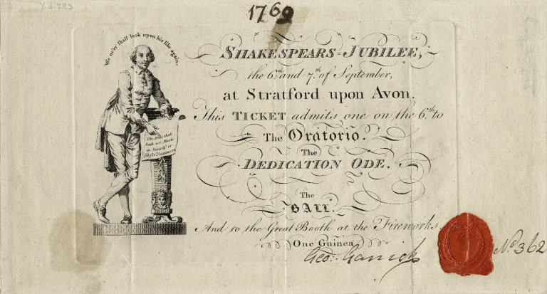 Ticket to Shakespeare’s Jubilee signed by George Garrick. Manuscript, 6 September 1769